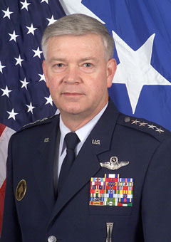 General Charles R. Holland, USAF, commander U.S. Special Operations Command (2000-2003)